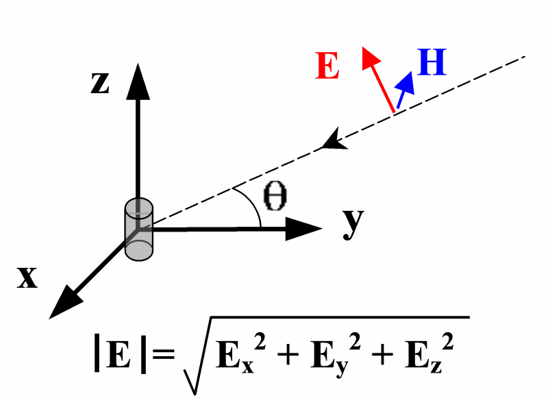 E-field reconstruction using an orthogonal reference frame